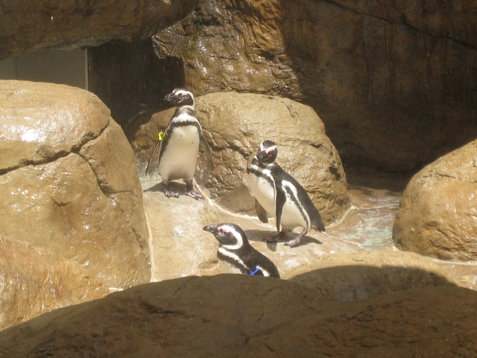 Magellanic Penguins in outdoor exhibit at Potter Park Zoo in Lansing, Michigan